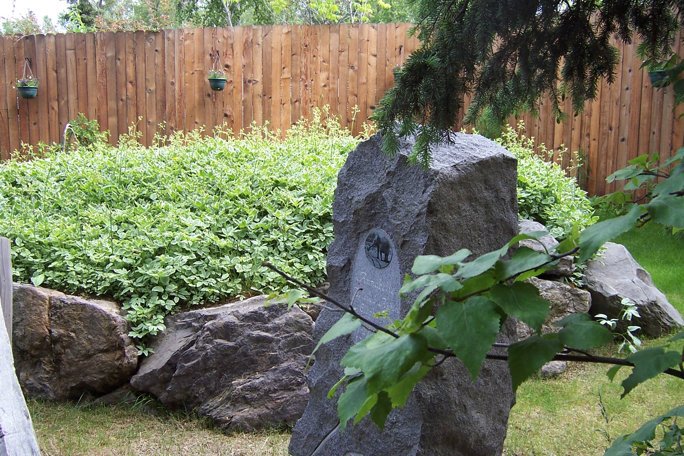 Elephant gravestone, Alaska Zoo, Anchorage, AK